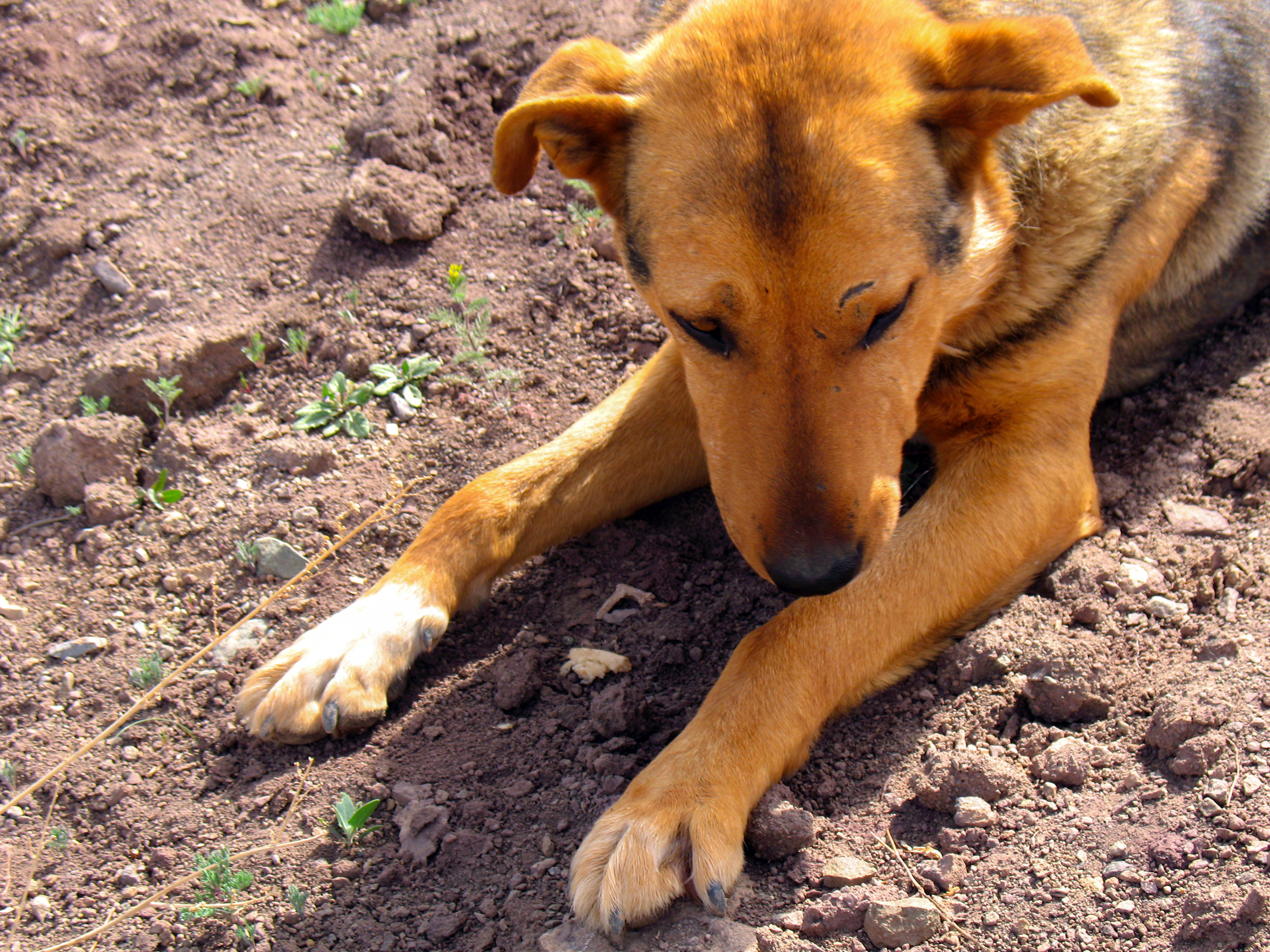 The domestic dog (Canis lupus familiaris or Canis familiaris) is a member of genus Canis (canines) that forms part of the wolf-like canids, and is the most widely abundant carnivore.